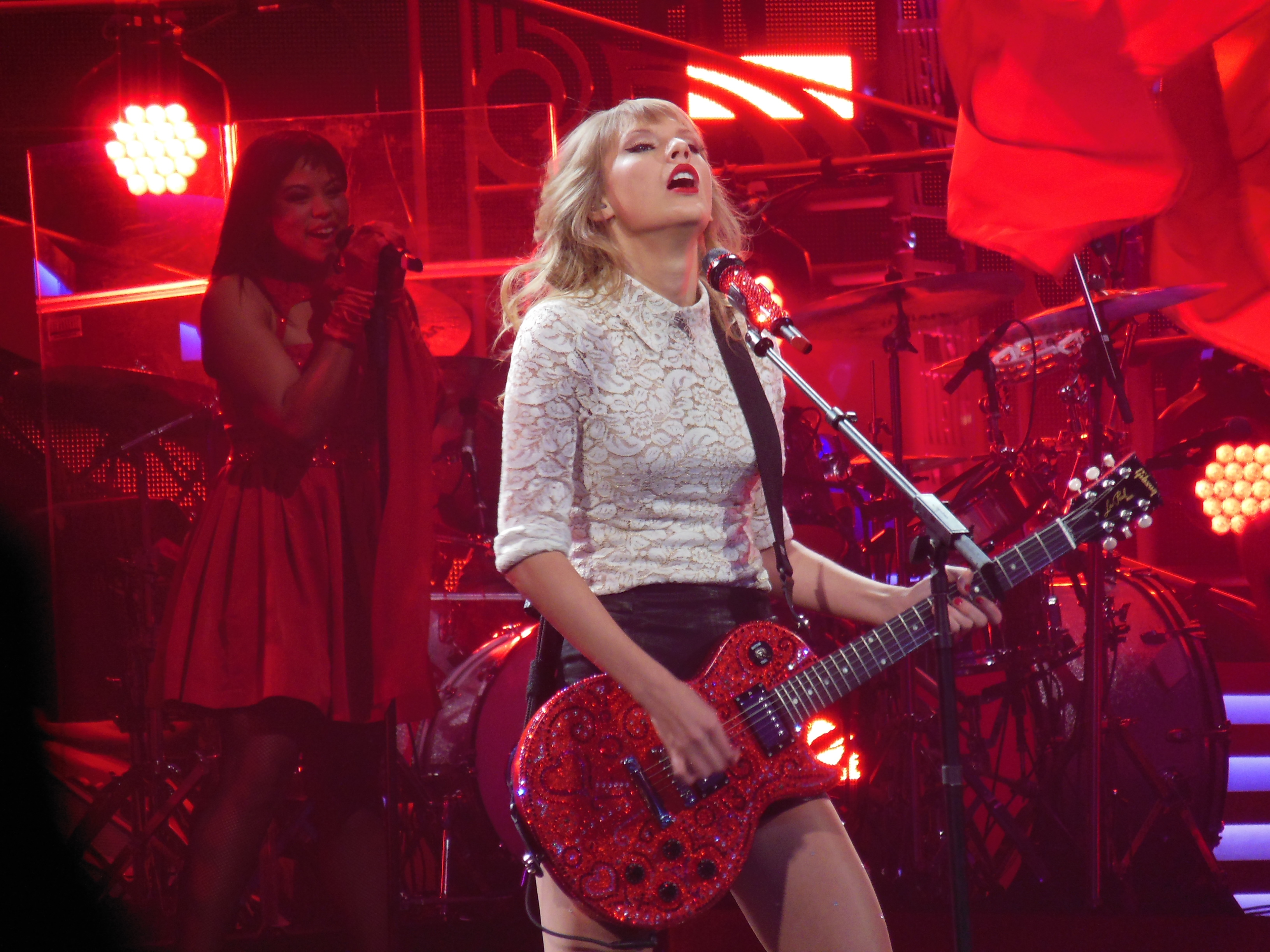 Taylor Swift 2013 RED Tour